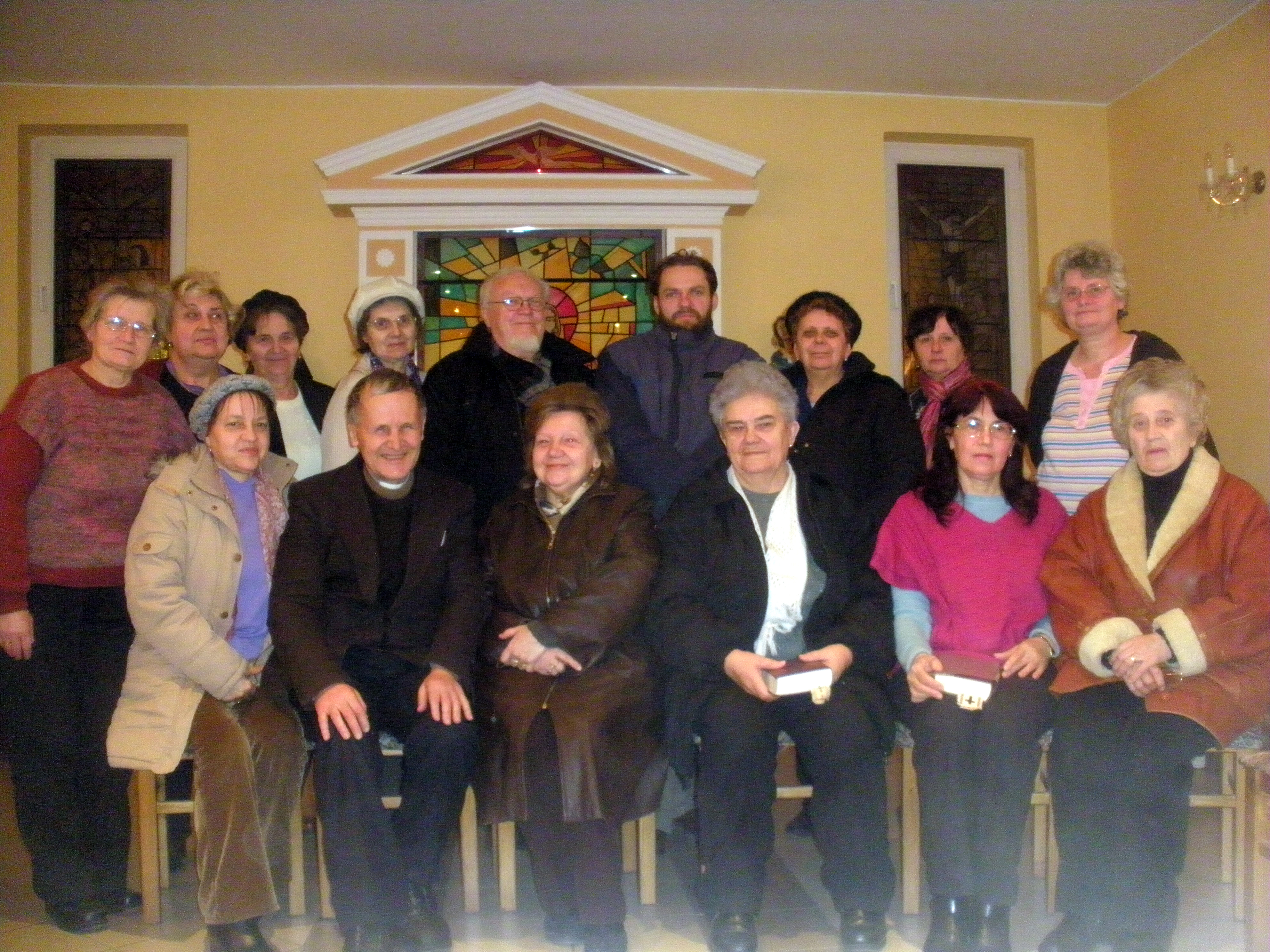 Bible group in Mužlja leaded from Aranka Palatinus on 28. II. 2012 with Salesian Janez Jelen